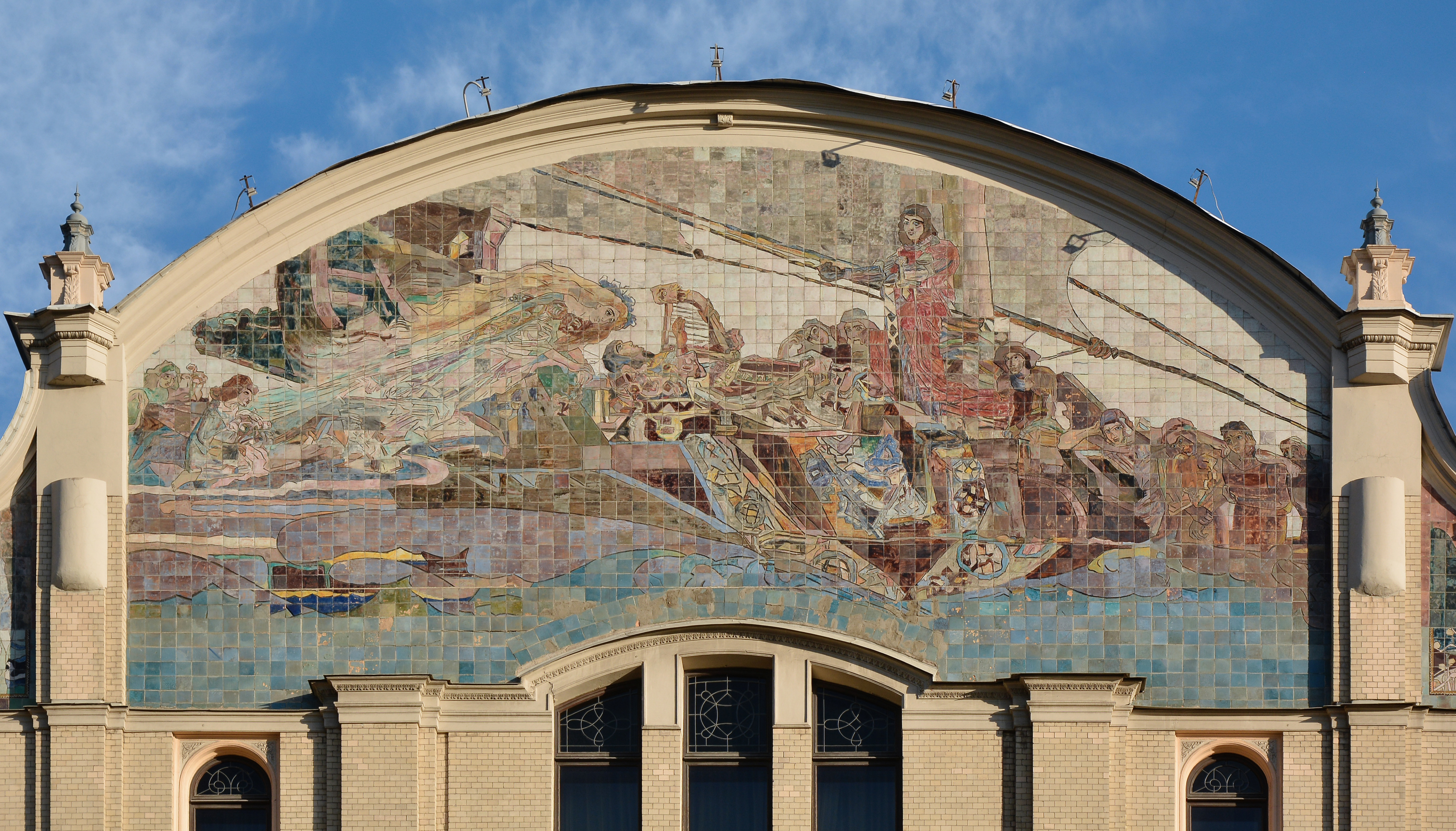 Moscow. Hotel "Metropol", The central part of the main facade overlooks the Teatralny Lane. Hotel "Metropol" was built in 1899-1905 years by the architect William Walkot (amended Lev Kekushev and Nikolai Shevyakov). One of the most significant Art Nouveau buildings in Moscow. Central majolica panels "Princess of Dreams" were designed by Mikhail Vrubel.